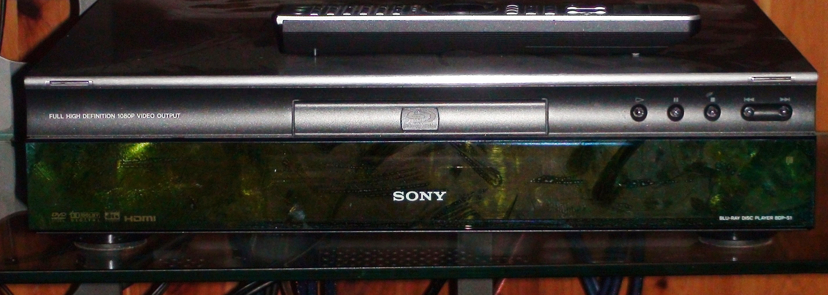 A Sony BDP-S1 Blu-ray Disc player in 2014. Photograph taken on August 14, 2014, in Germantown, Maryland, with a Sony HDR-SR11 camcorder, by Illegitimate Barrister.